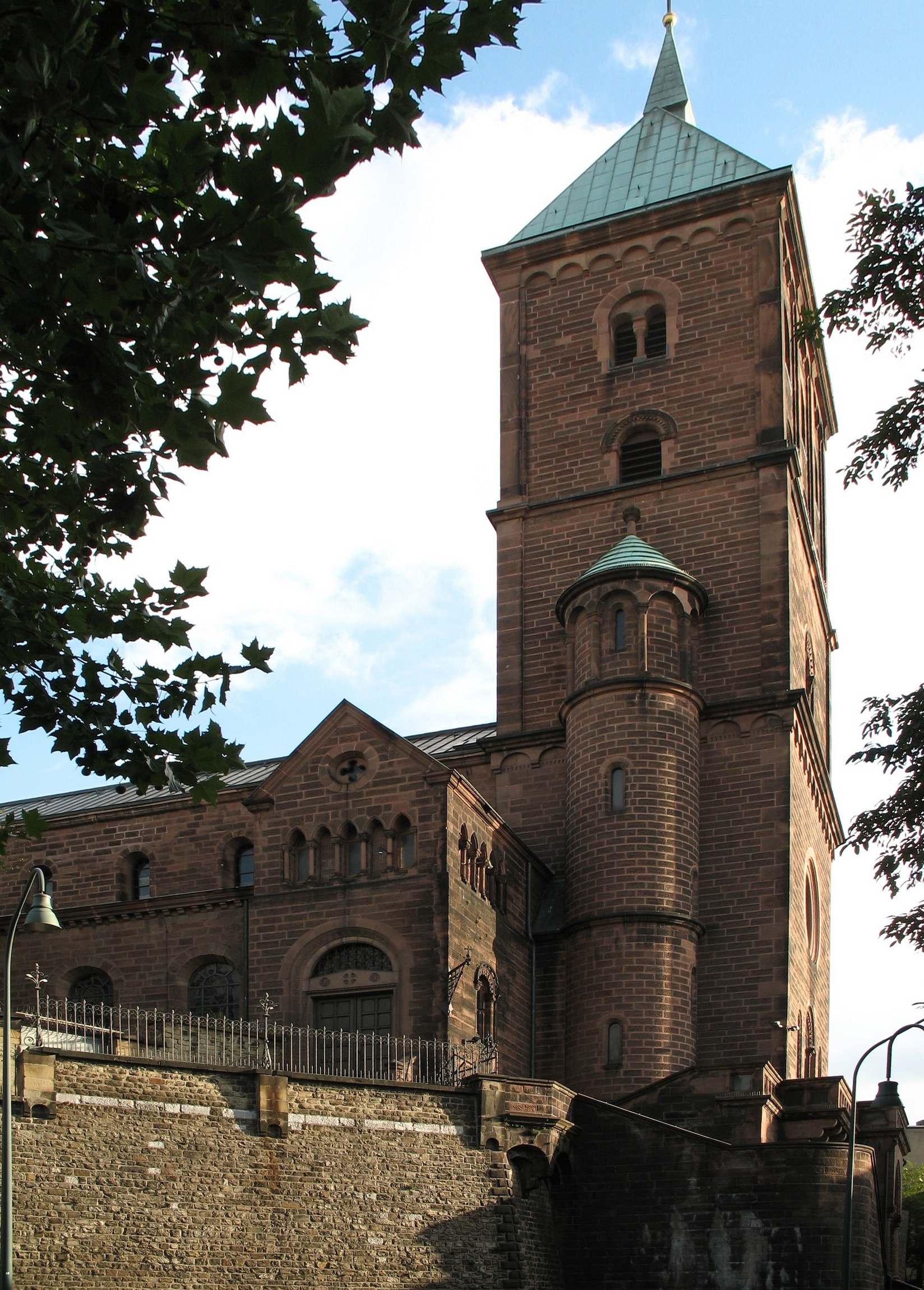 St Adalbert catholic church in Aachen, Germany